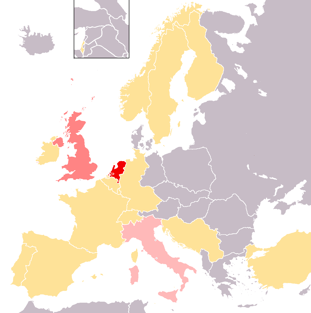 Map of Eurovision 1975